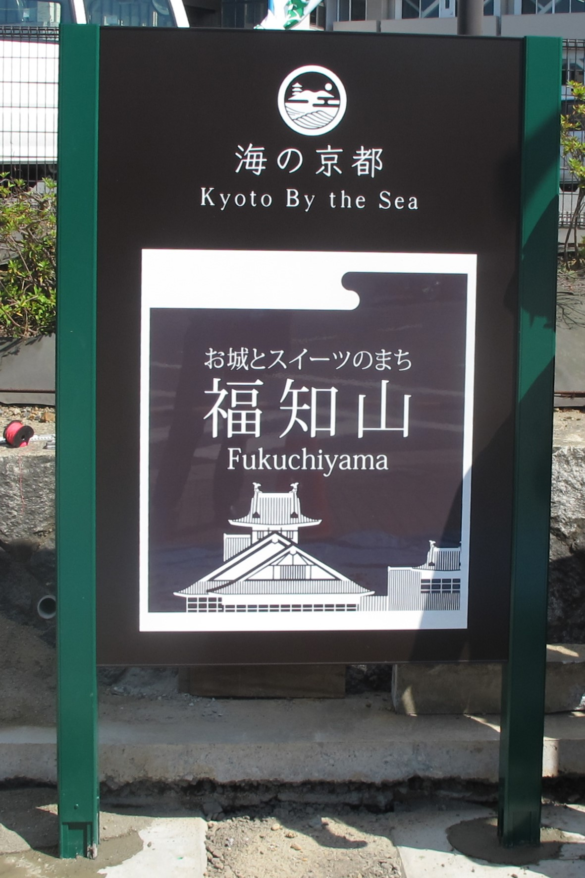 Fukuchiyama as Kyoto